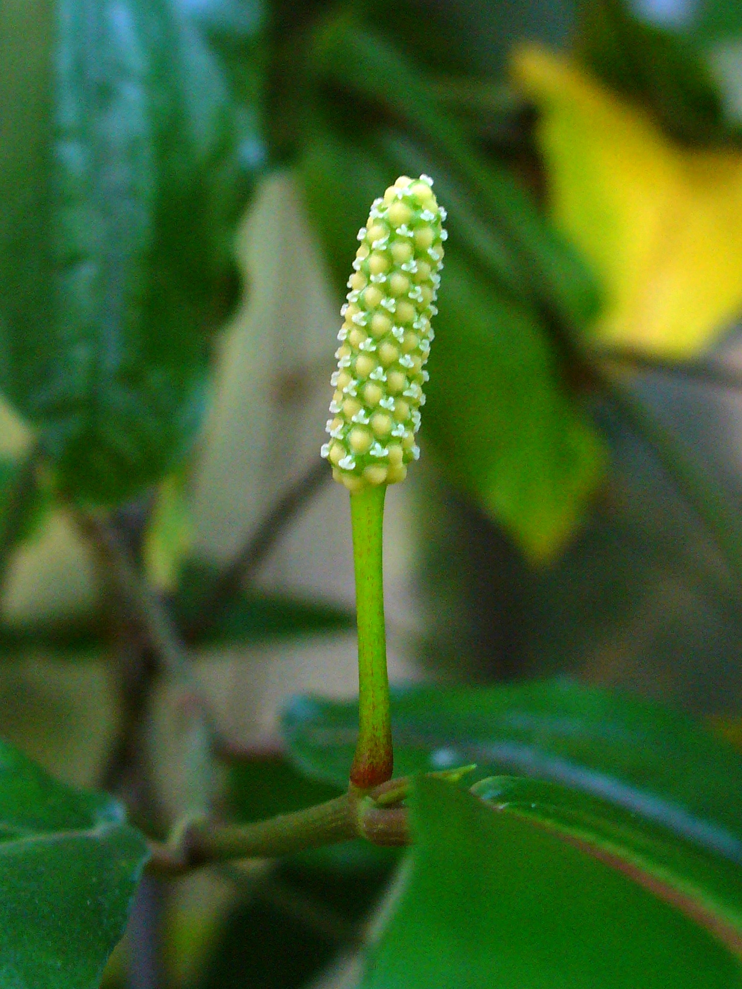 Piper cubeba, Piperaceae, Cubeb, Tailed Pepper, Java Pepper, fruits. Botanical Garden KIT, Karlsruhe, Germany.